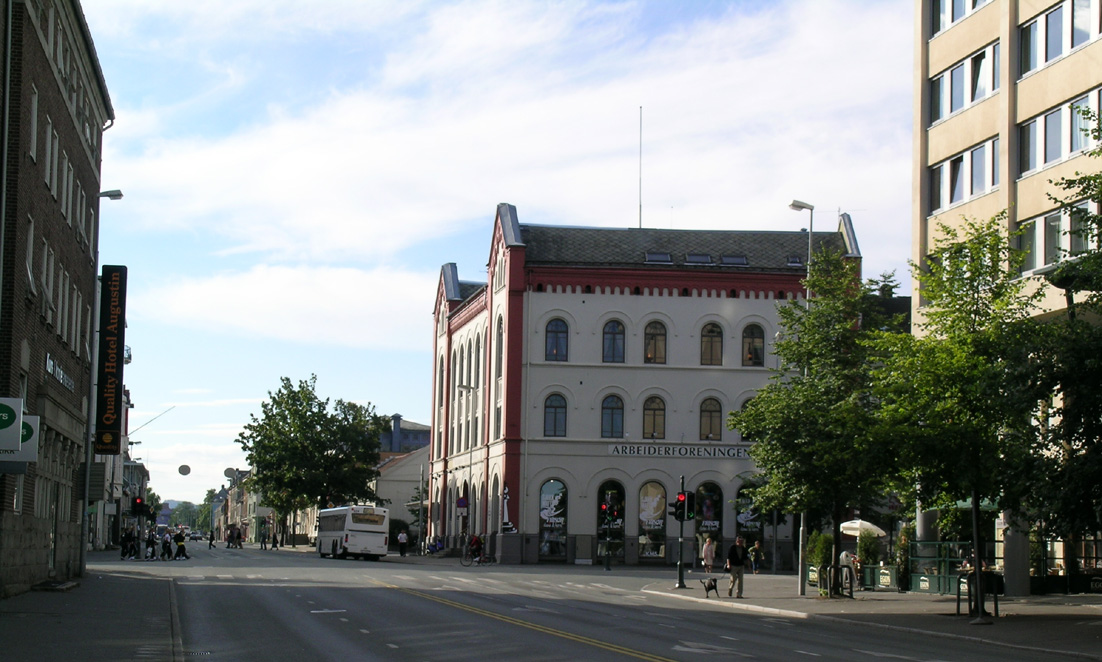 Prinsens gate, Trondheim, Norway.